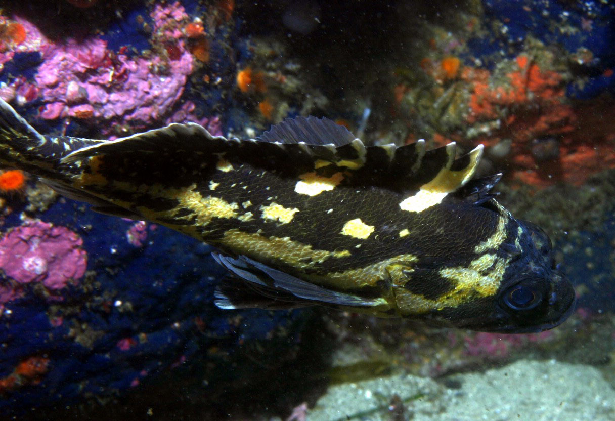 Black and yellow rockfish (Sebastes chrysomelas) cruising by at Partington Point